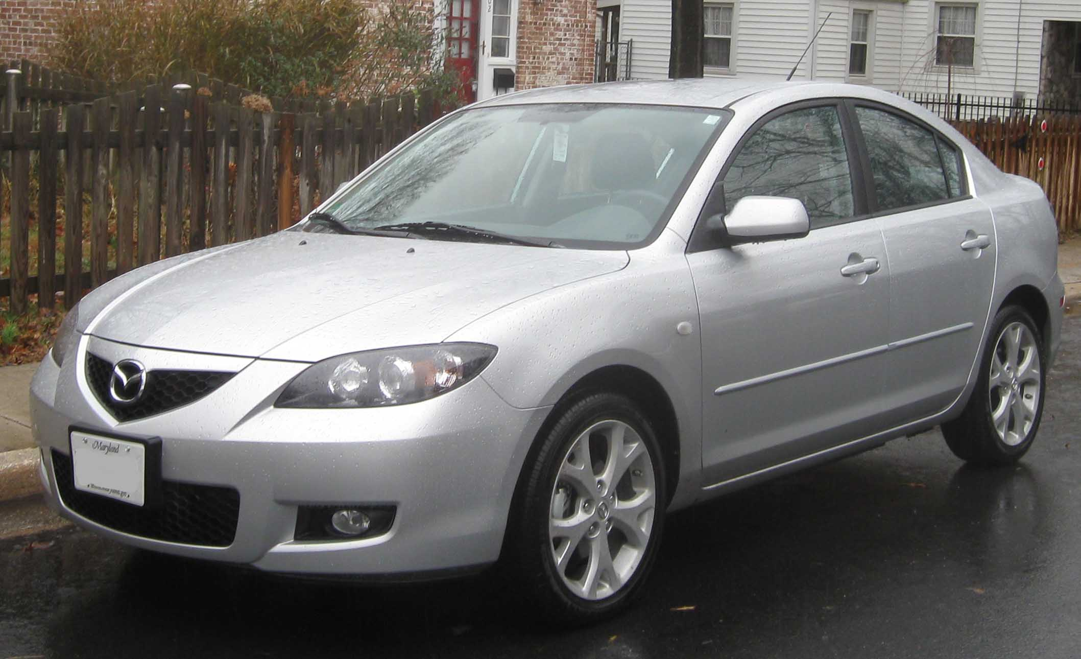 2007-2009 Mazda 3 photographed in College Park, Maryland, USA.